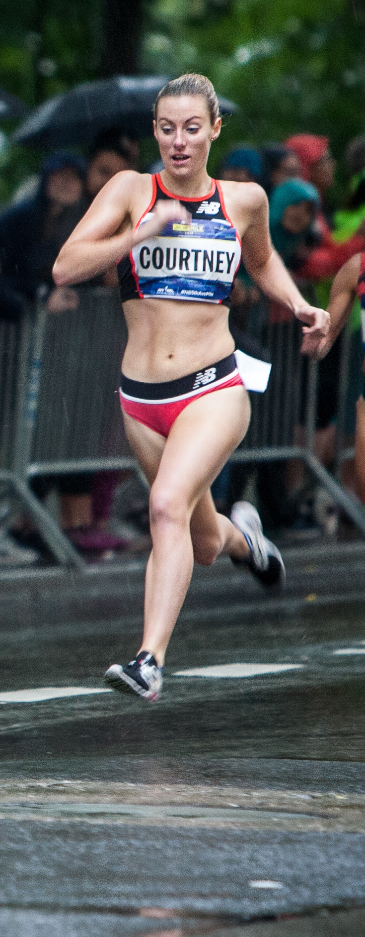 2018 Fifth Avenue Mile